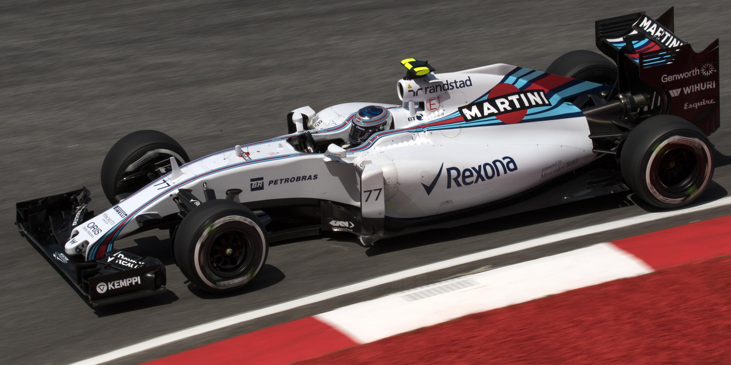 Formula One 2015 Rd.2 Malaysian GP: Valtteri Bottas (WilliamsF1)